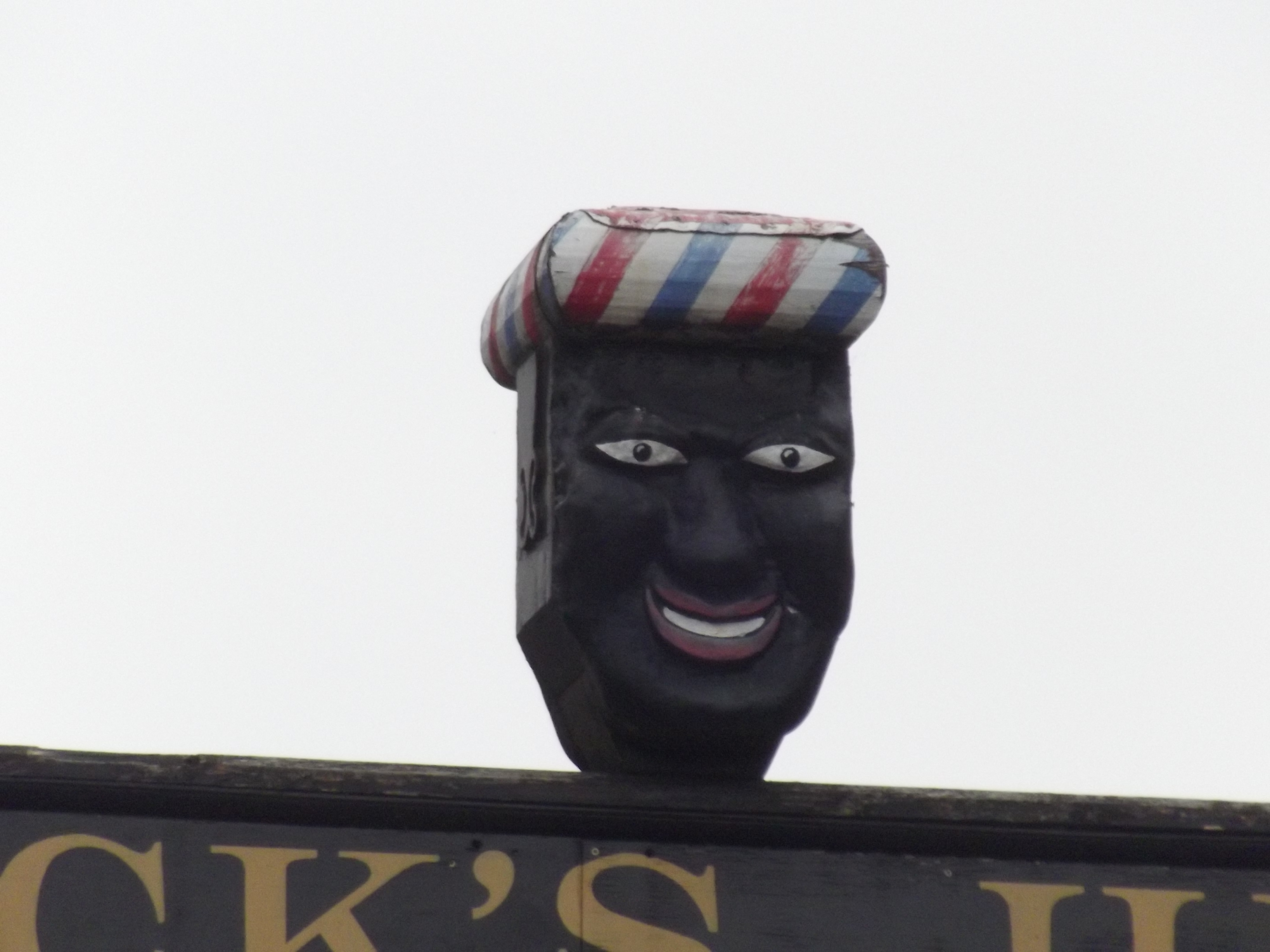 The Green Man & Black Head's Royal Hotel as seen on St John Street in Ashbourne, Derbyshire. Here you can easily spot the sign above the road with the "Black Head". Grade II* listed.